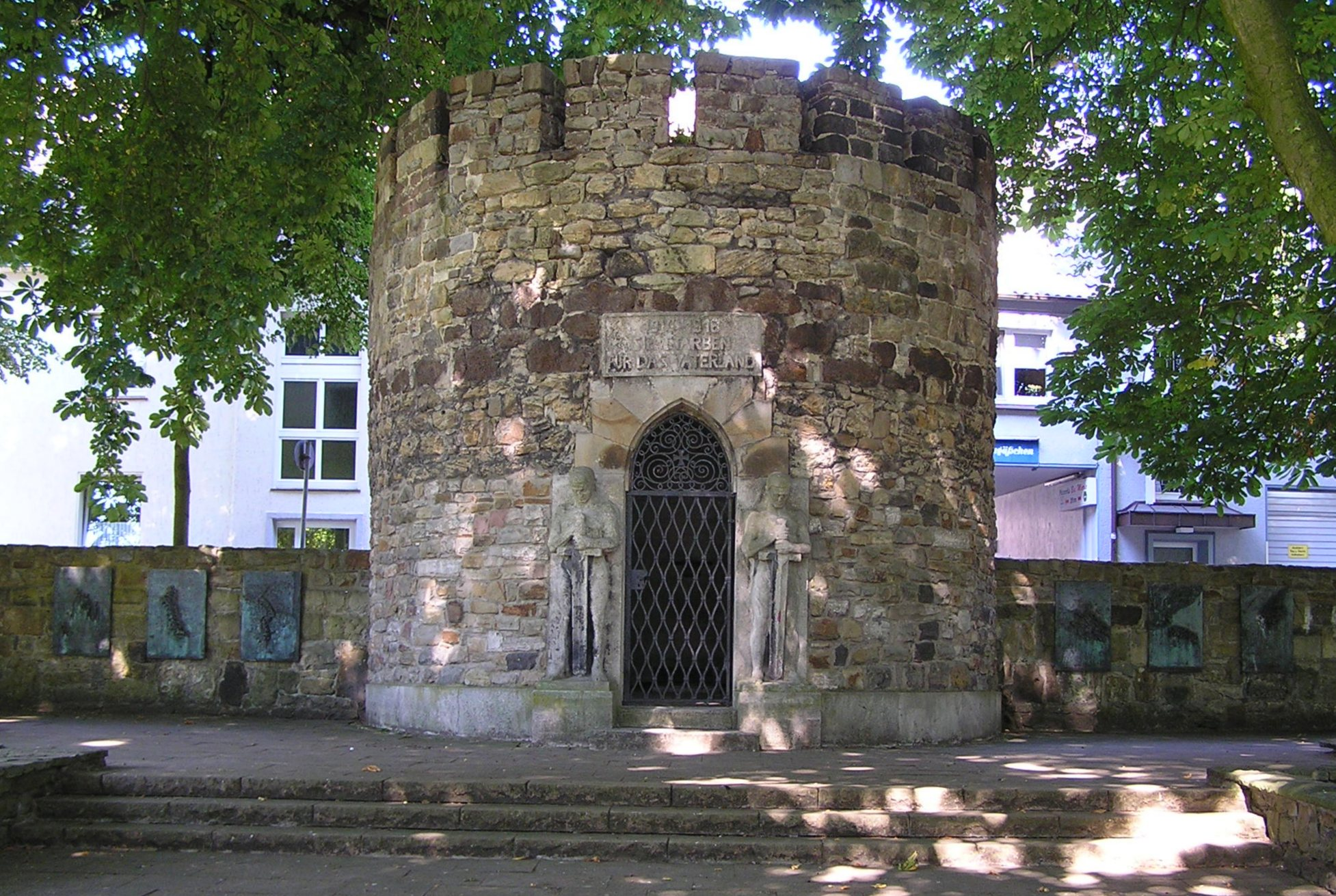 former barbican at the city wall of Dorsten. Today a memorial for the dead soldiers of WW I. Inscription obove the gate is "1914 - 1918. Sie starben für das Vaterland" ("1914 - 1918. They died for the fatherland"). This is a photograph of an architectural monument.